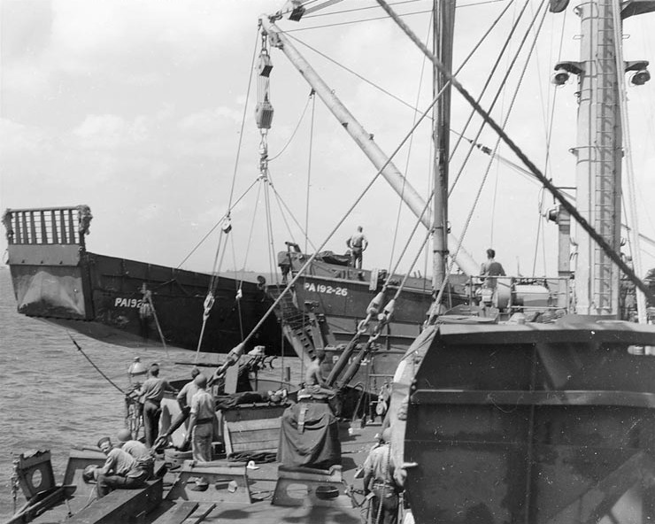 USS Rutland (APA-192) lowering a LCM off Iwo Jima.